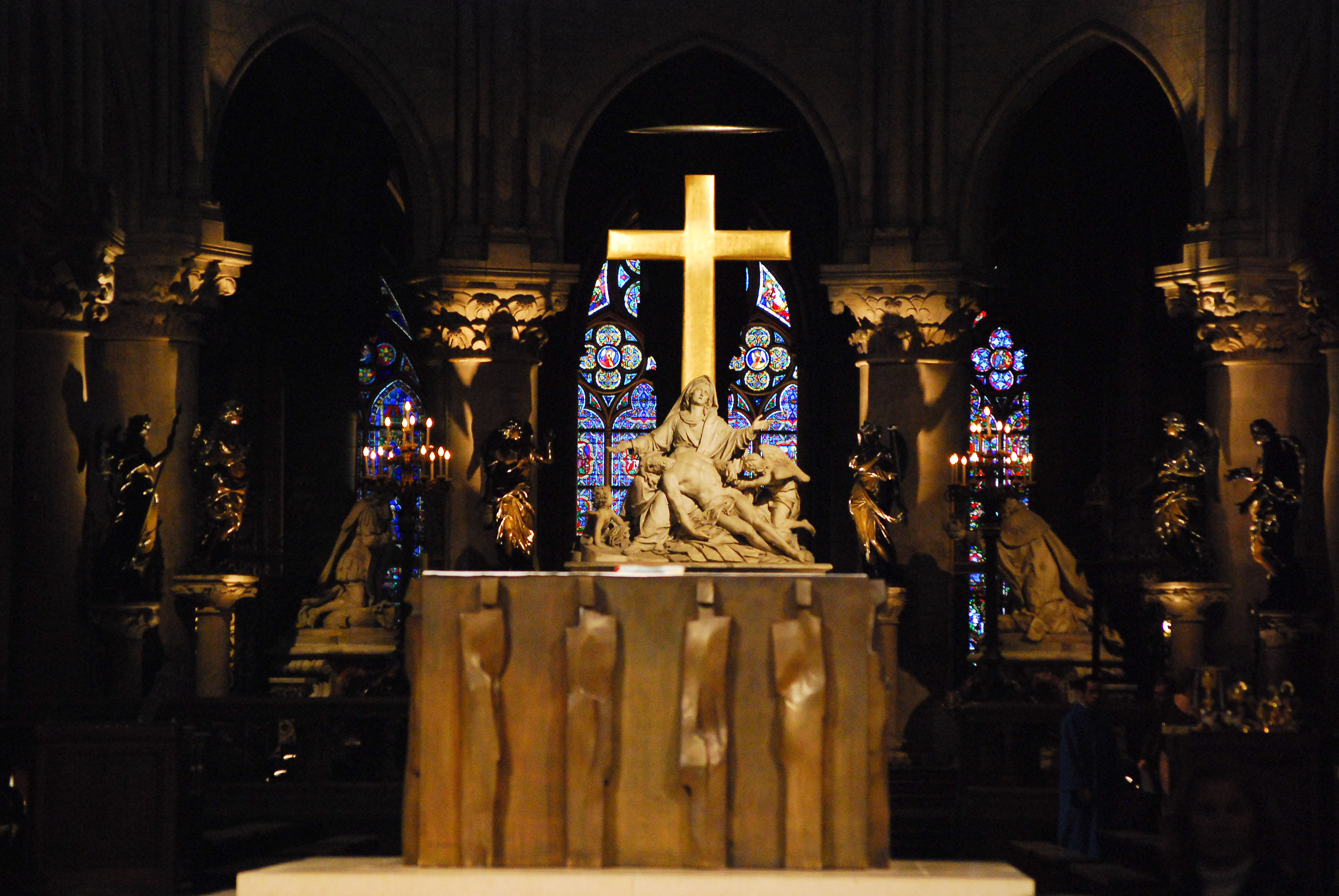 the modern altar at Notre Dame